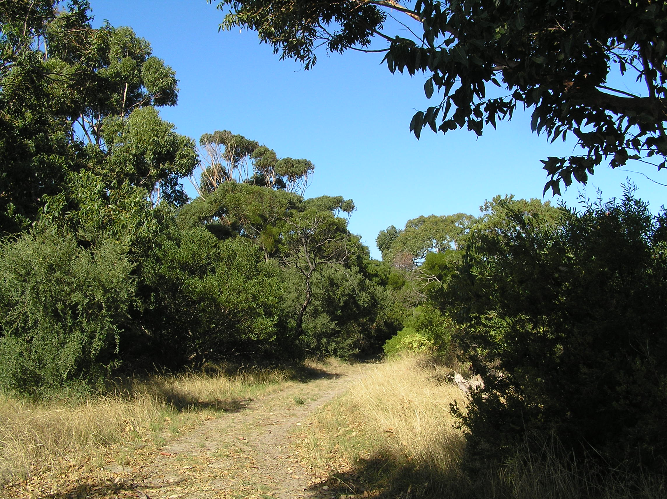 Woodland walking track near Charlie's Hole, Edwards Point Wildlife Reserve, Victoria, Australia.